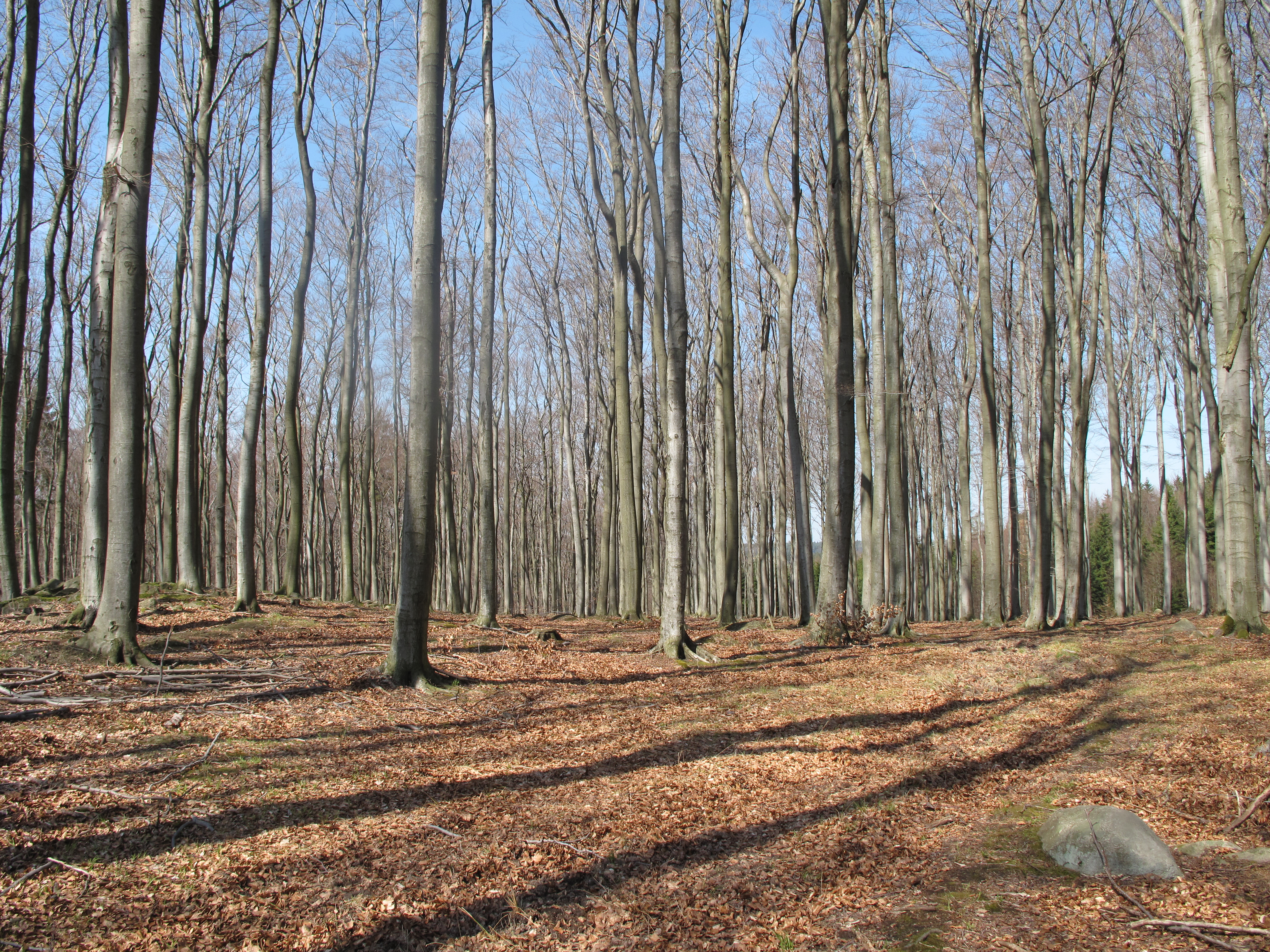 Voděrady Beechwood by spring. Prague-East District, Czech Republic. This photograph was taken within the scope of the 'Czech Municipalities Photographs' grant.